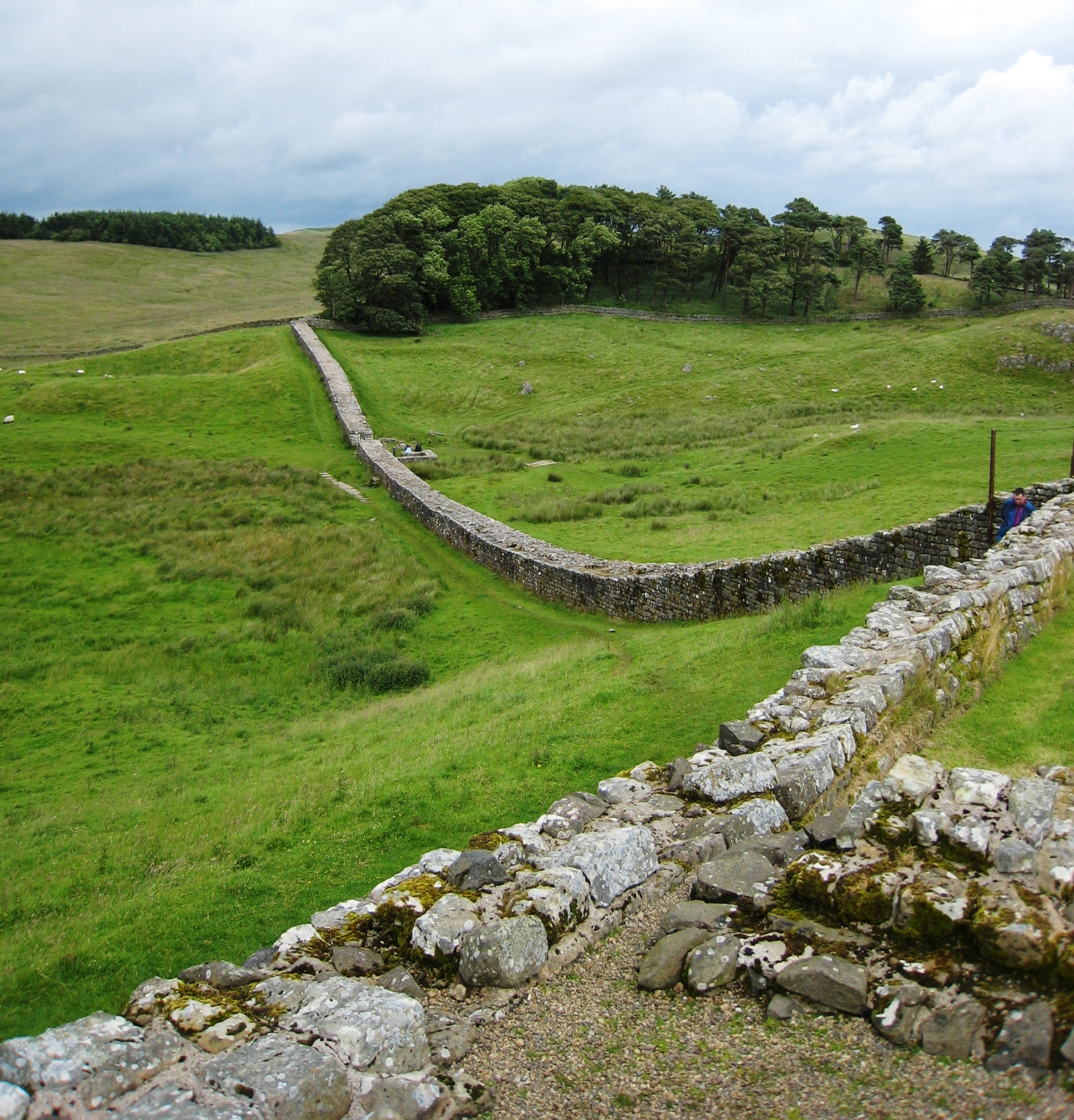 A stretch of Hadrian's Wall viewed from Vercovicium near Housesteads in Northumberland, Date: 2007